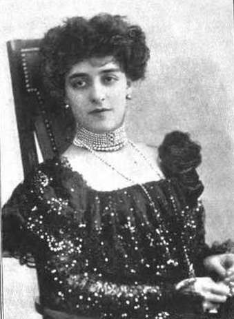 Wanda de Boncza, from a 1901 publication.